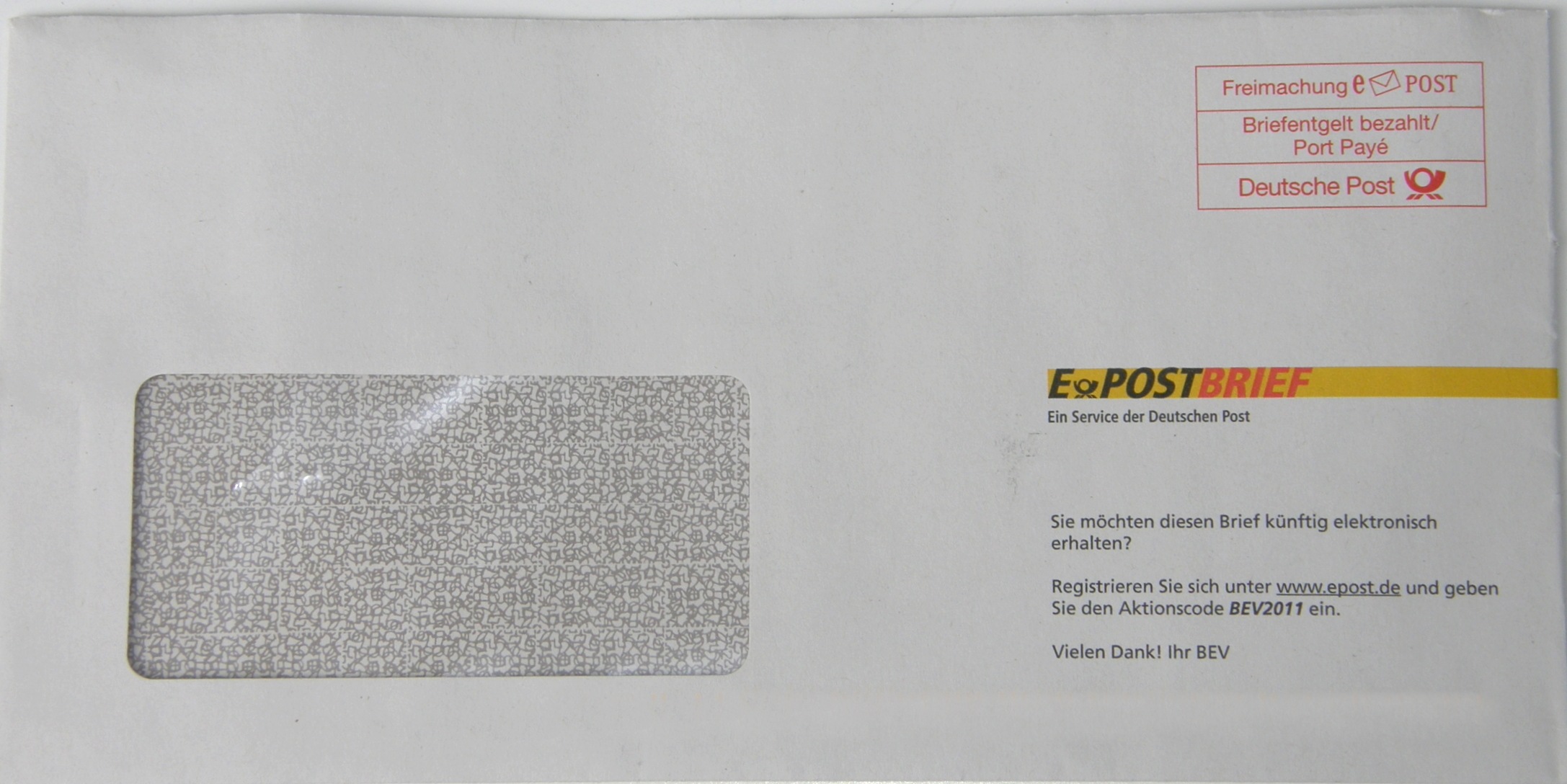 Lettercover